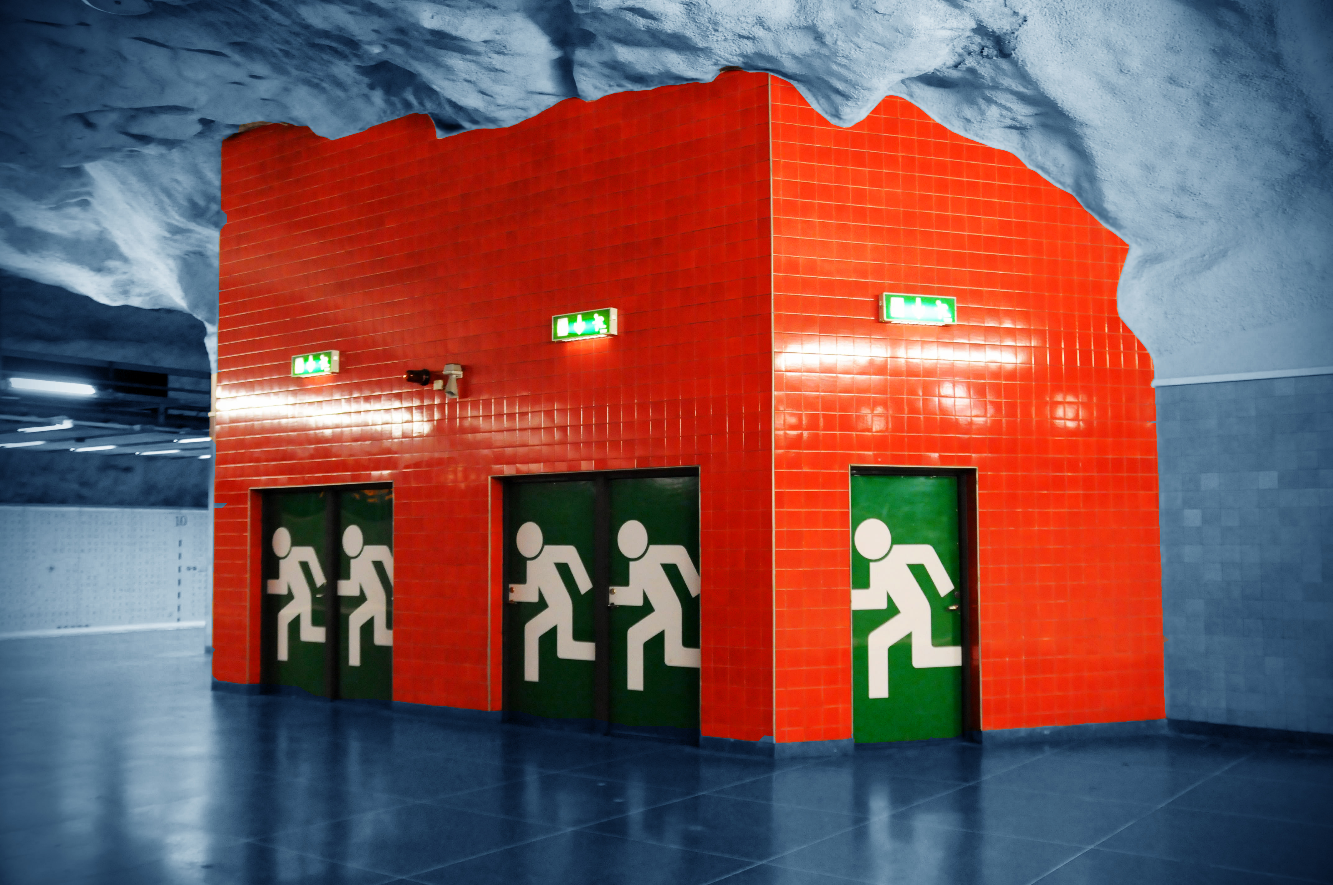 Modified photo: Unmistakable emergency exit in Stockholm's underground station "Universitetet" I tried to make it in the style of lorretine, one of my favourite photographers here on flickr.